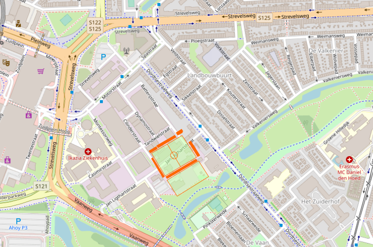 Approximative location of De Kromme Zandweg (orange), former stadium of Feyenoord from 1917 to 1937-1949, in today's Rotterdam. Created with File:Old map of Charlois and Bloemhof (1926).jpg and a map from OpenStreetMap. Map of De Kromme Zandweg stadium location in today's RotterdamThis map of Charlois, Rotterdam was created from OpenStreetMap project data, collected by the community. This map may be incomplete, and may contain errors. Don't rely solely on it for navigation.